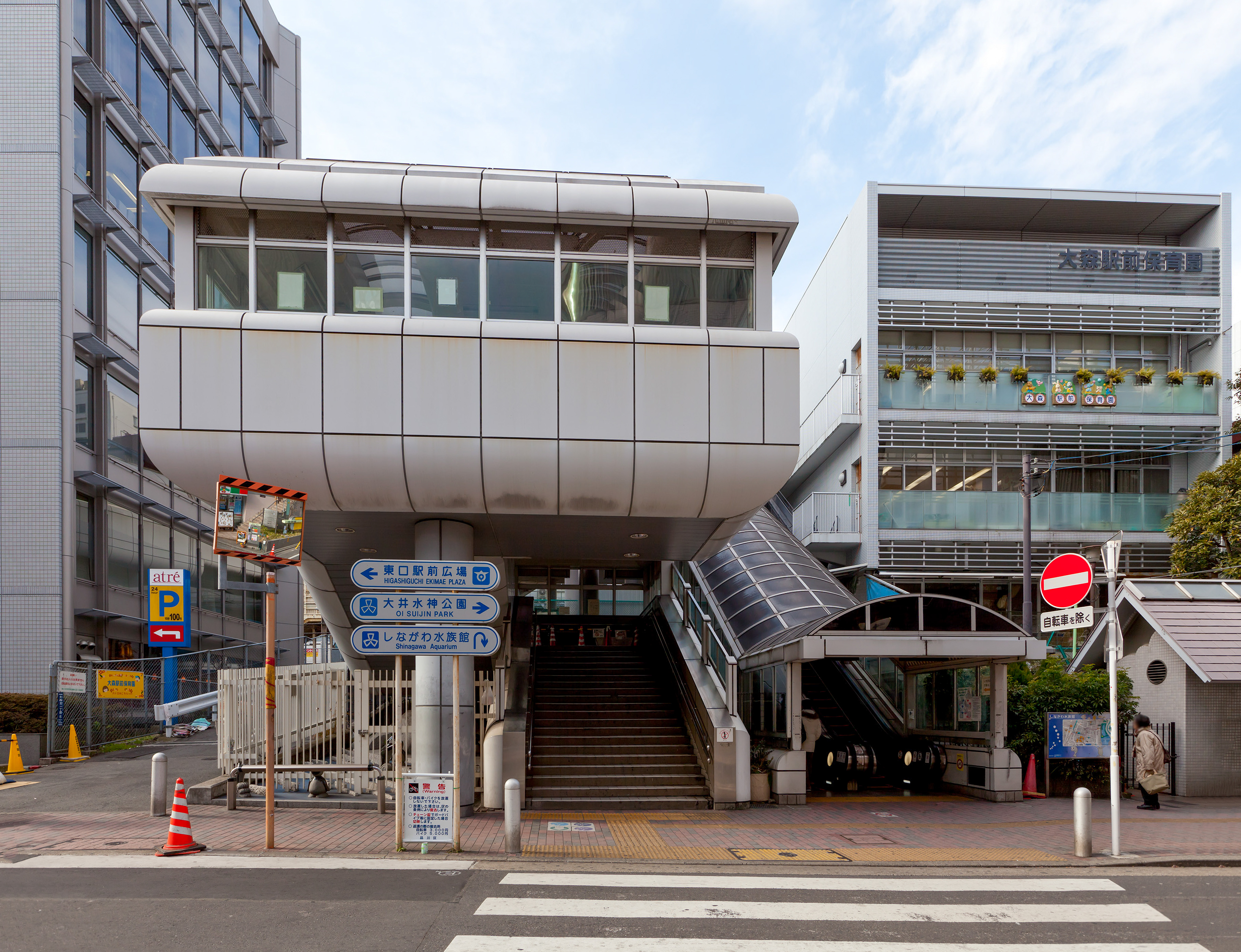 Ōmori Station North Exit